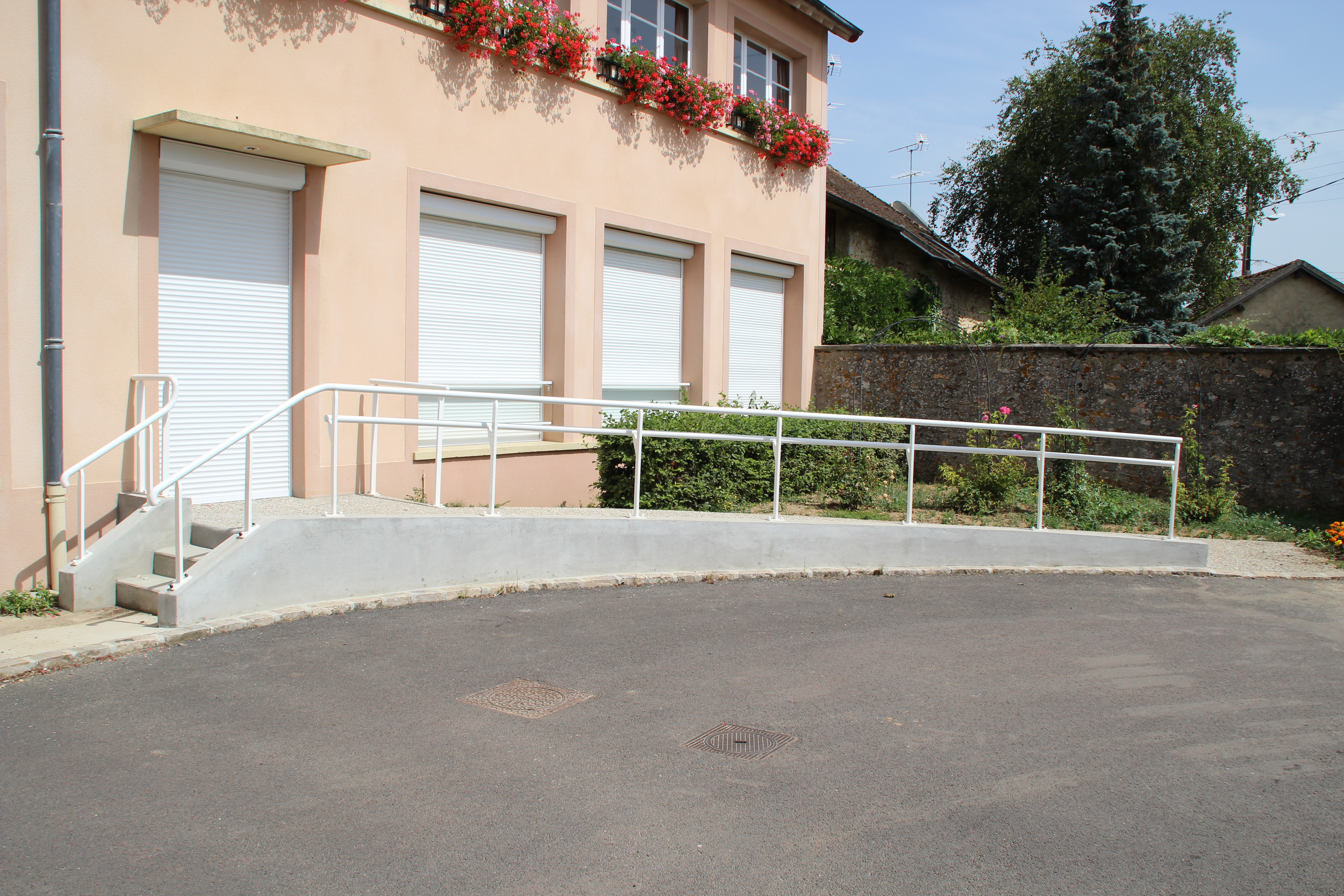 Town hall of Boinville-le-Gaillard, France.